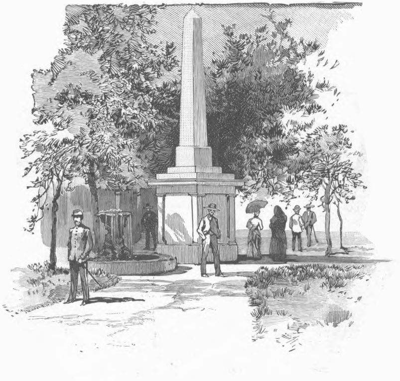 Soldiers' Monument in Santa Fe, New Mexico Territory